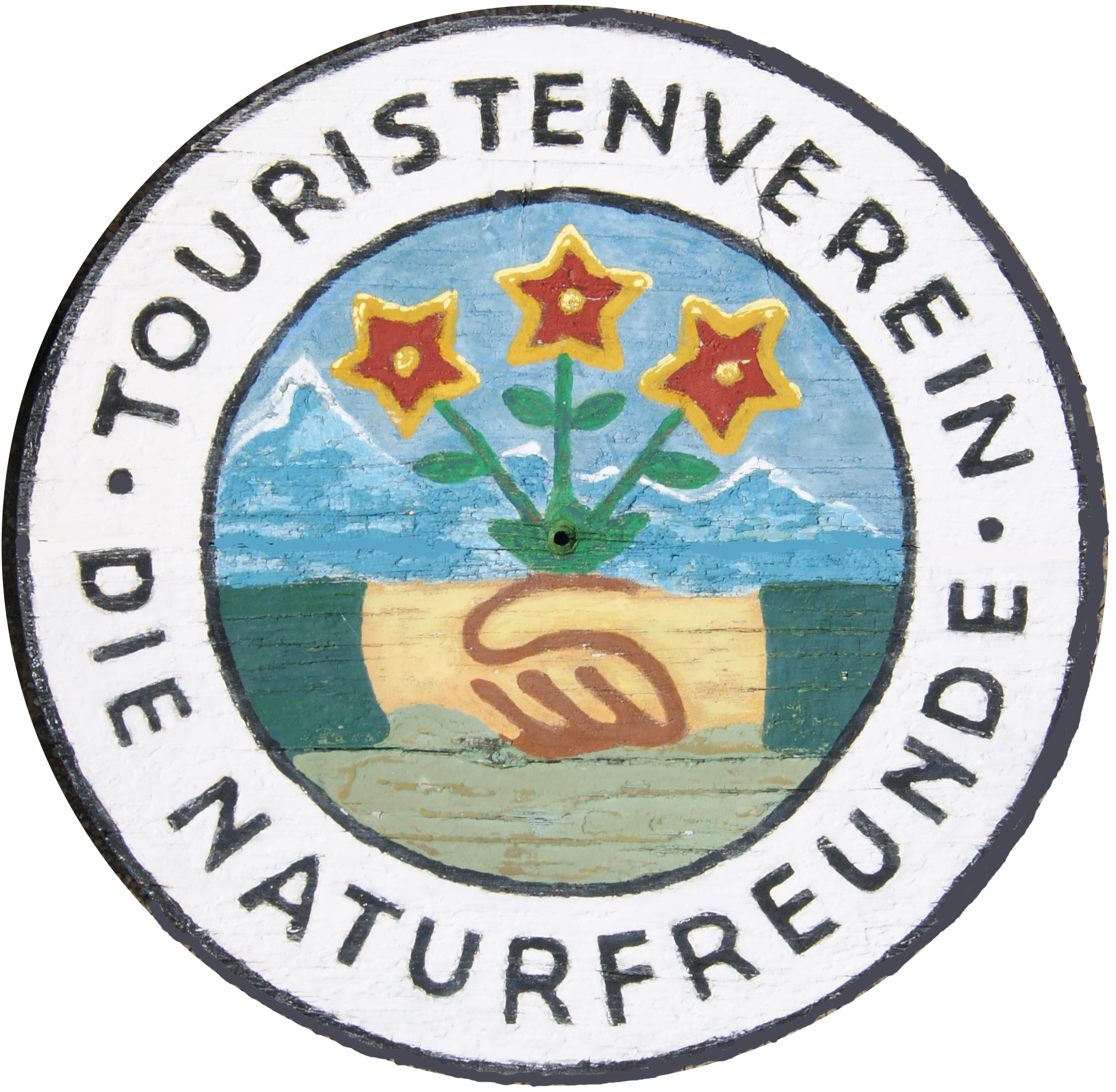 Old logo of the friends of nature (Austria), wooden sign at the Feldkircherhut in Frastanz, diameter about 55 cm, made around 1920, painted by hand, painter unknown. The basic design of the logo is from Karl Renner